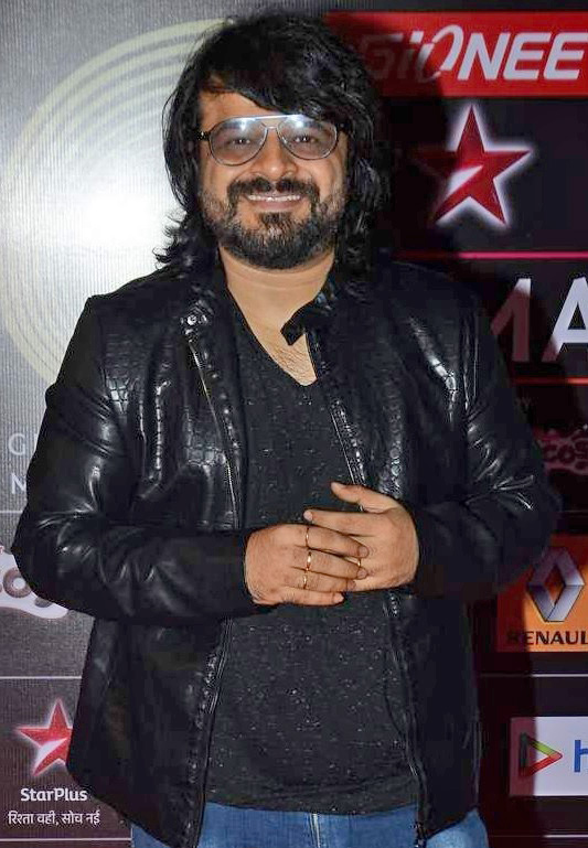 Pritam Chakraborty at the 5th GiMA Awards.